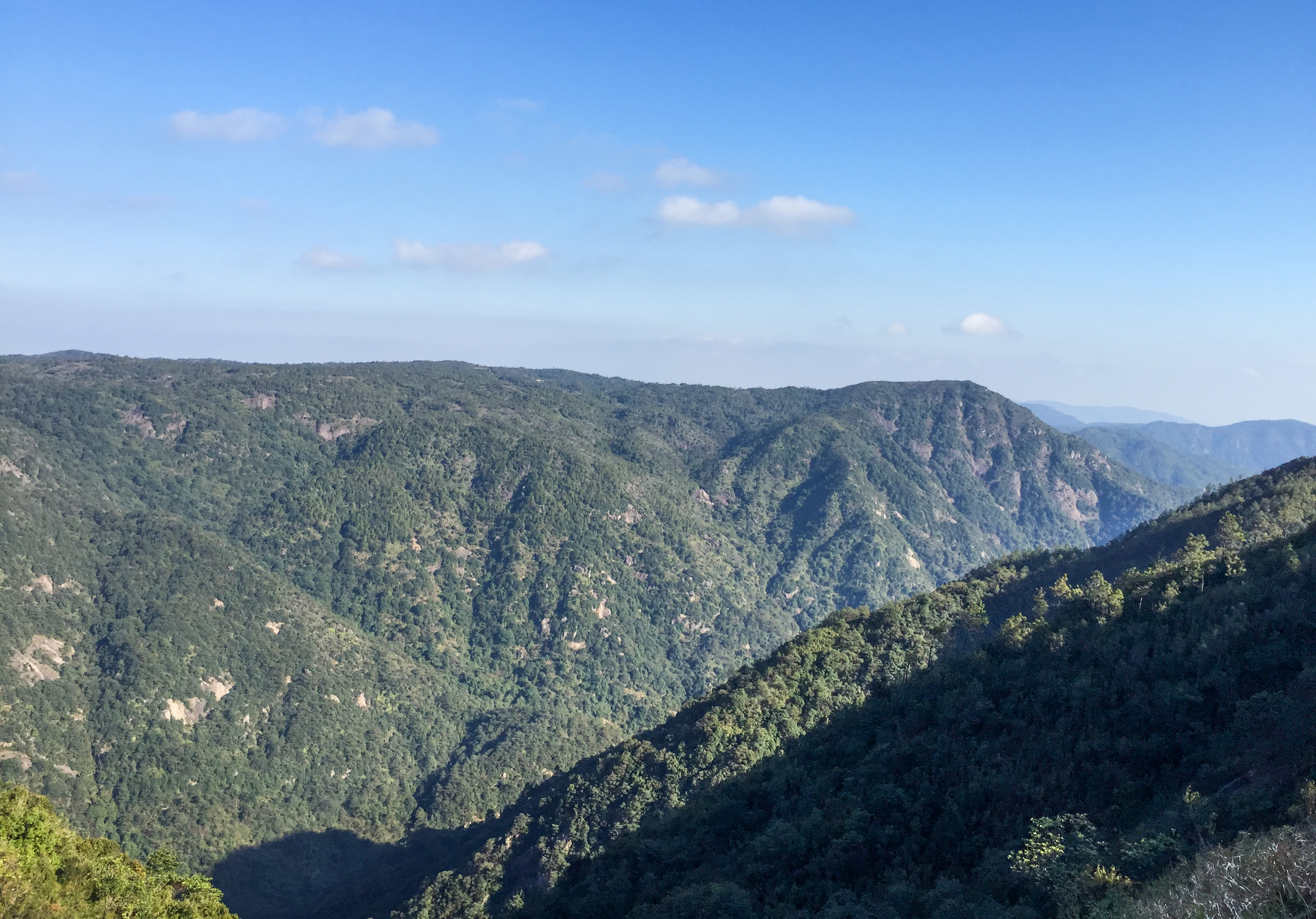 Really gusty in Kuliang.